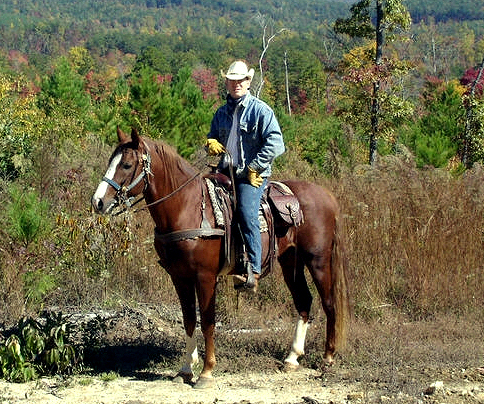 chestnut Mountain Pleasure Horse stallion